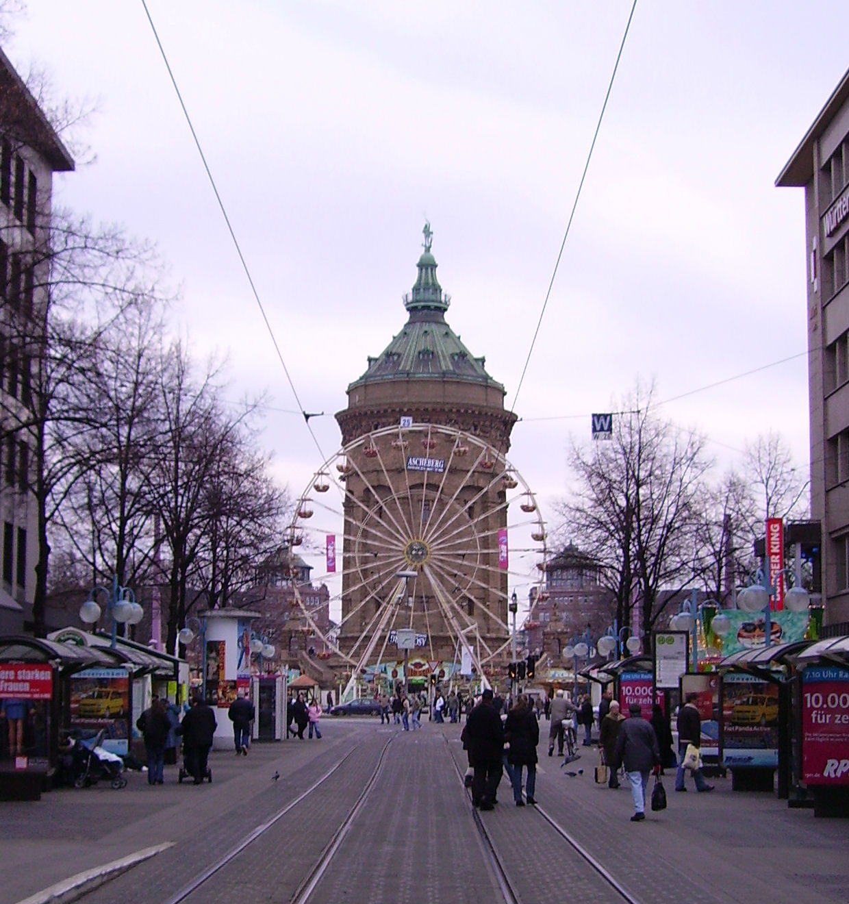 street in Mannheim, Germany